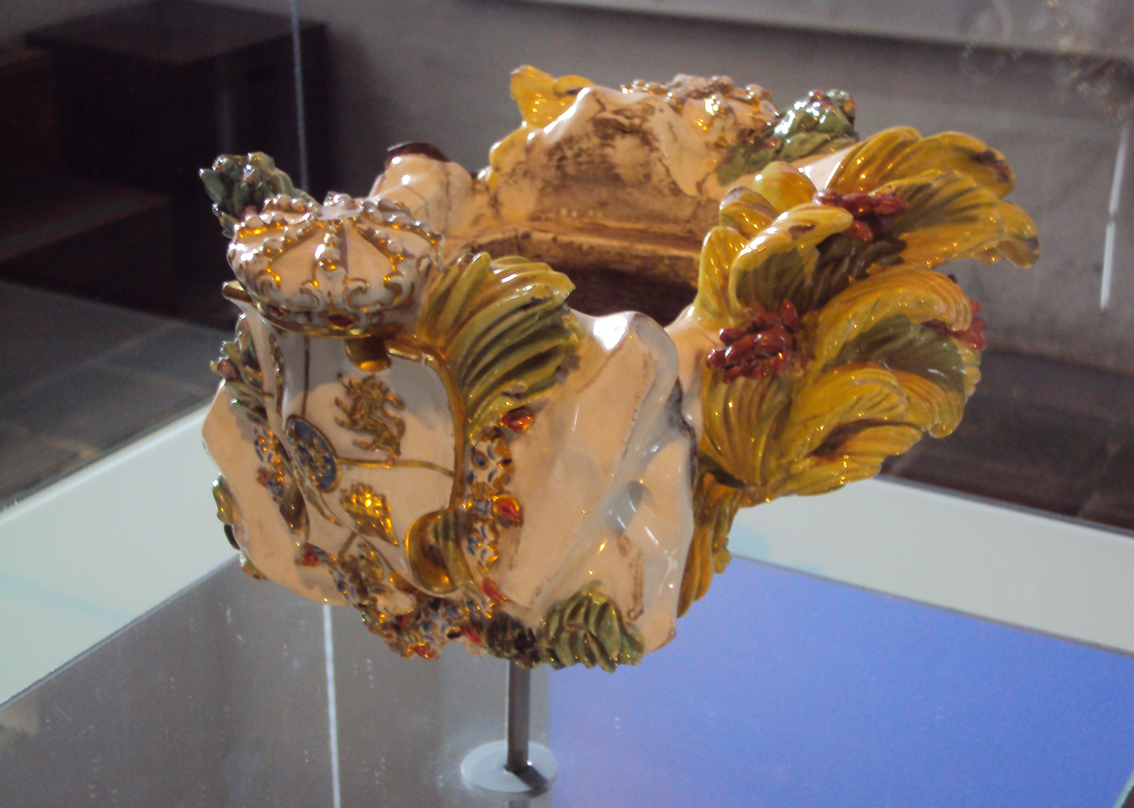 The Florero de LLorente (LLorente's Flowerpot)